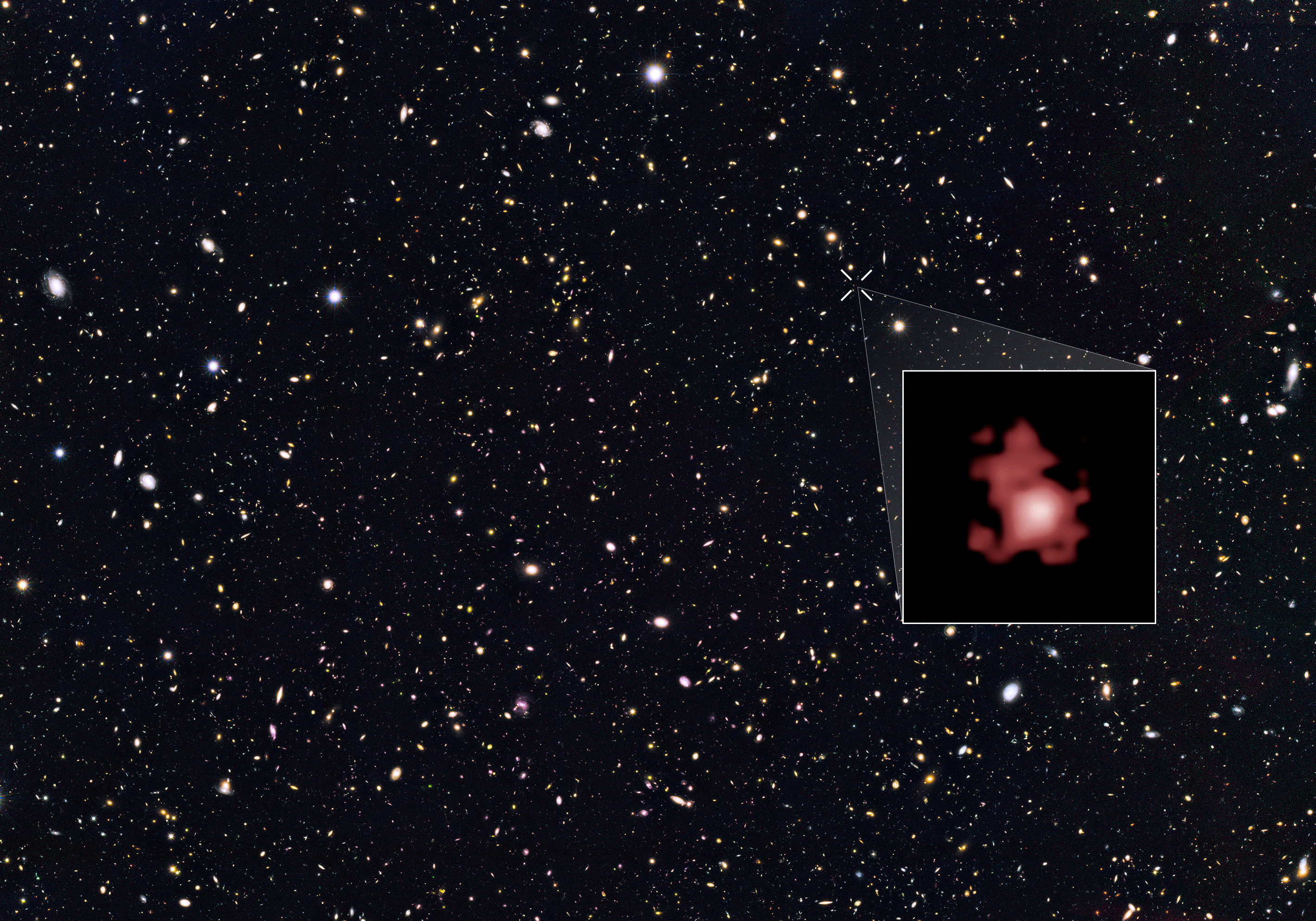 Hubble Space Telescope astronomers, studying the northern hemisphere field from the Great Observatories Origins Deep Survey (GOODS), have measured the distance to the farthest galaxy ever seen. The survey field contains tens of thousands of galaxies stretching far back into time. Galaxy GN-z11, shown in the inset, is seen as it was 13.4 billion years in the past, just 400 million years after the big bang, when the universe was only three percent of its current age. The galaxy is ablaze with bright, young, blue stars, but looks red in this image because its light has been stretched to longer spectral wavelengths by the expansion of the universe.